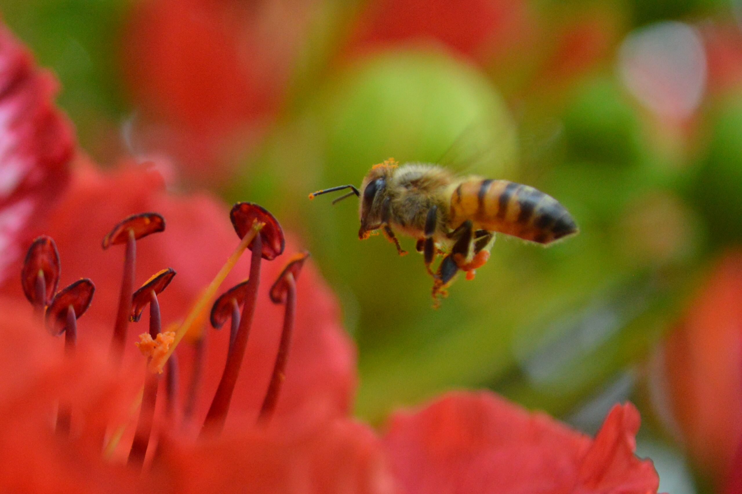 work s bee wonderful